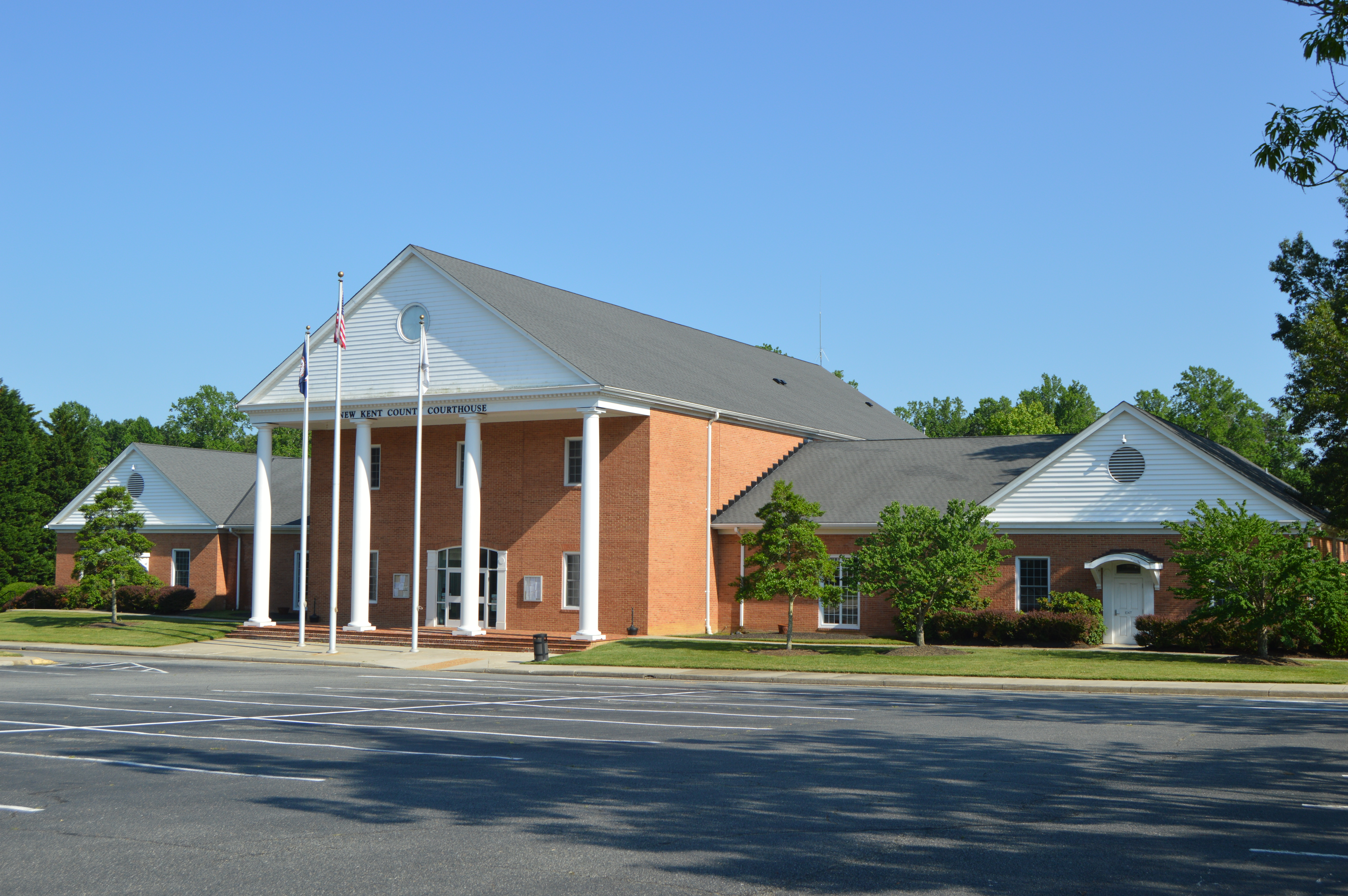 Front of the new New Kent County Courthouse, located on Courthouse Circle at New Ken Courthouse, Virginia, United States. The old New Kent County Courthouse is a short distance behind the photographer.